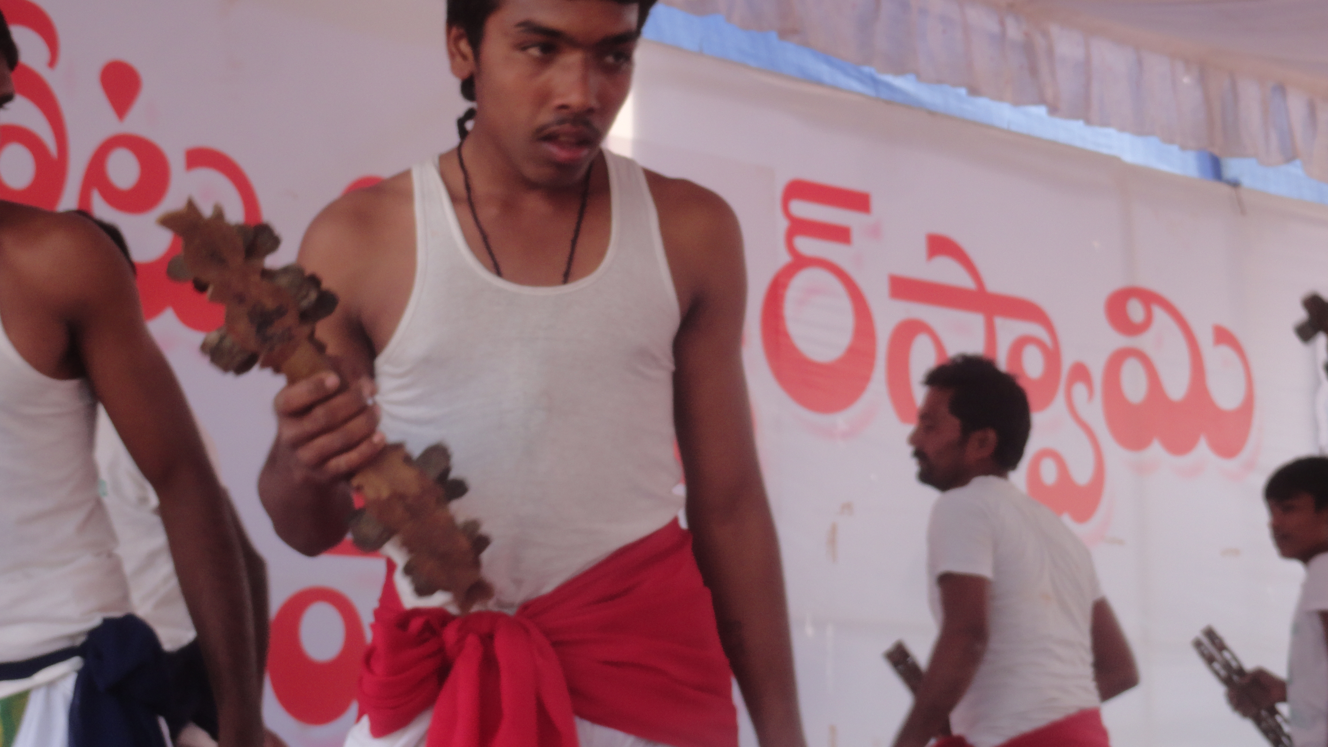 devotional dance